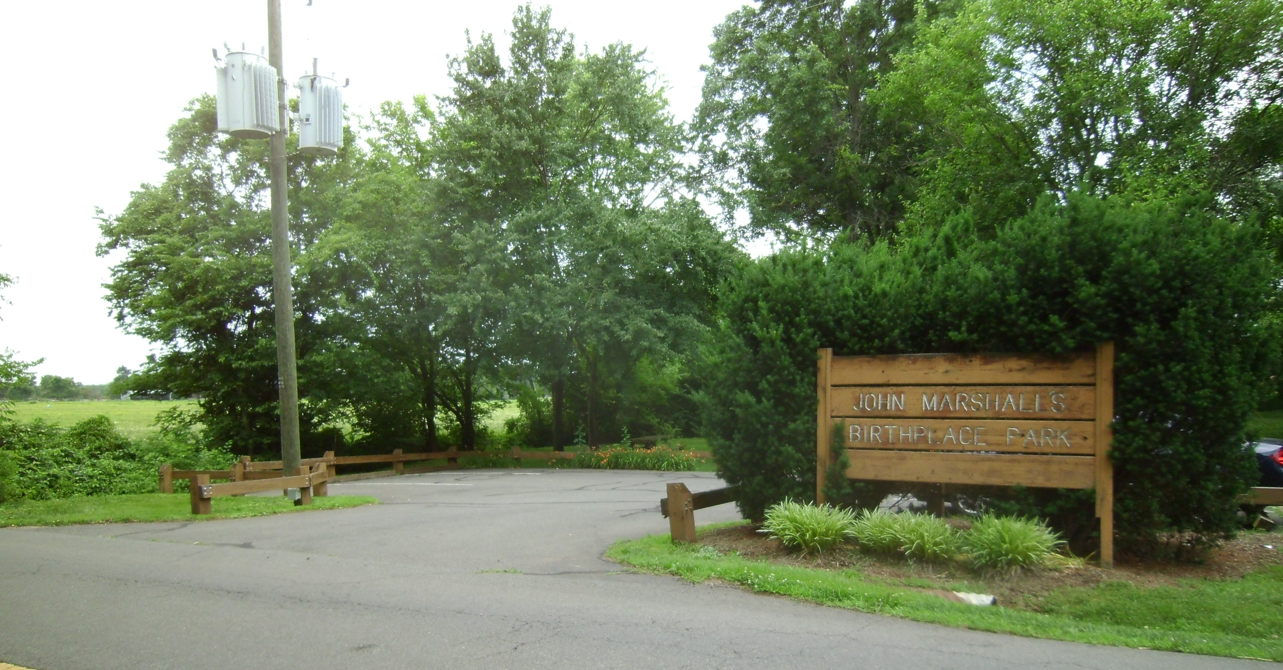 Entrance to John Marshall Birthplace Park from Germantown Road in Fauquier County, Virginia